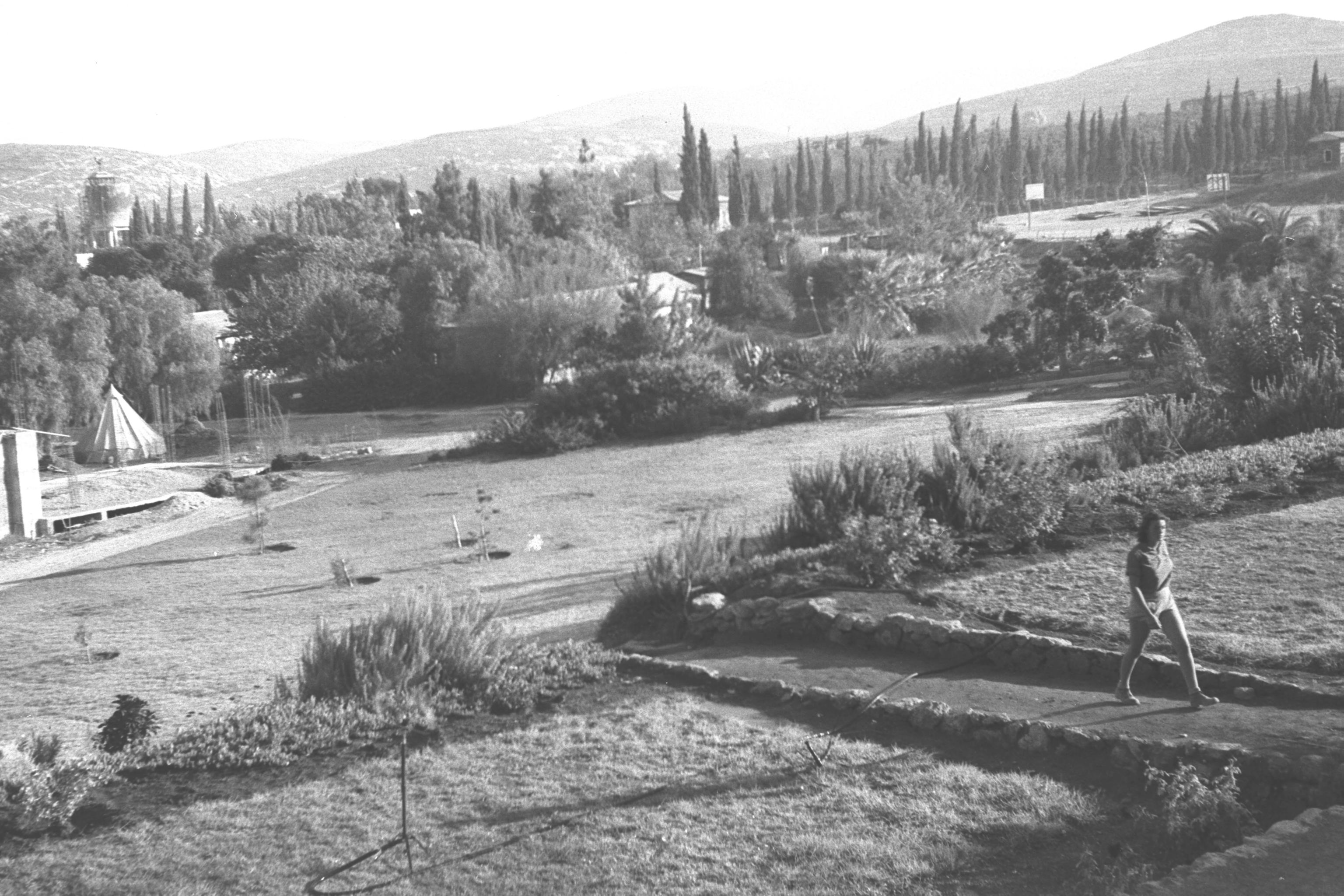 GENERAL VIEW OF MISHMAR HA'EMEK WITH ENEMY POSITIONS IN BACKGROUND.